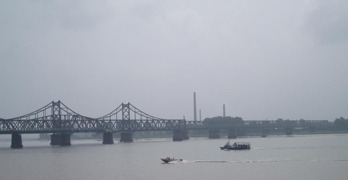 The Sino-Korean Friendship Bridge across the Yalu (Amnokgang) at Sinuiju and Dandong.